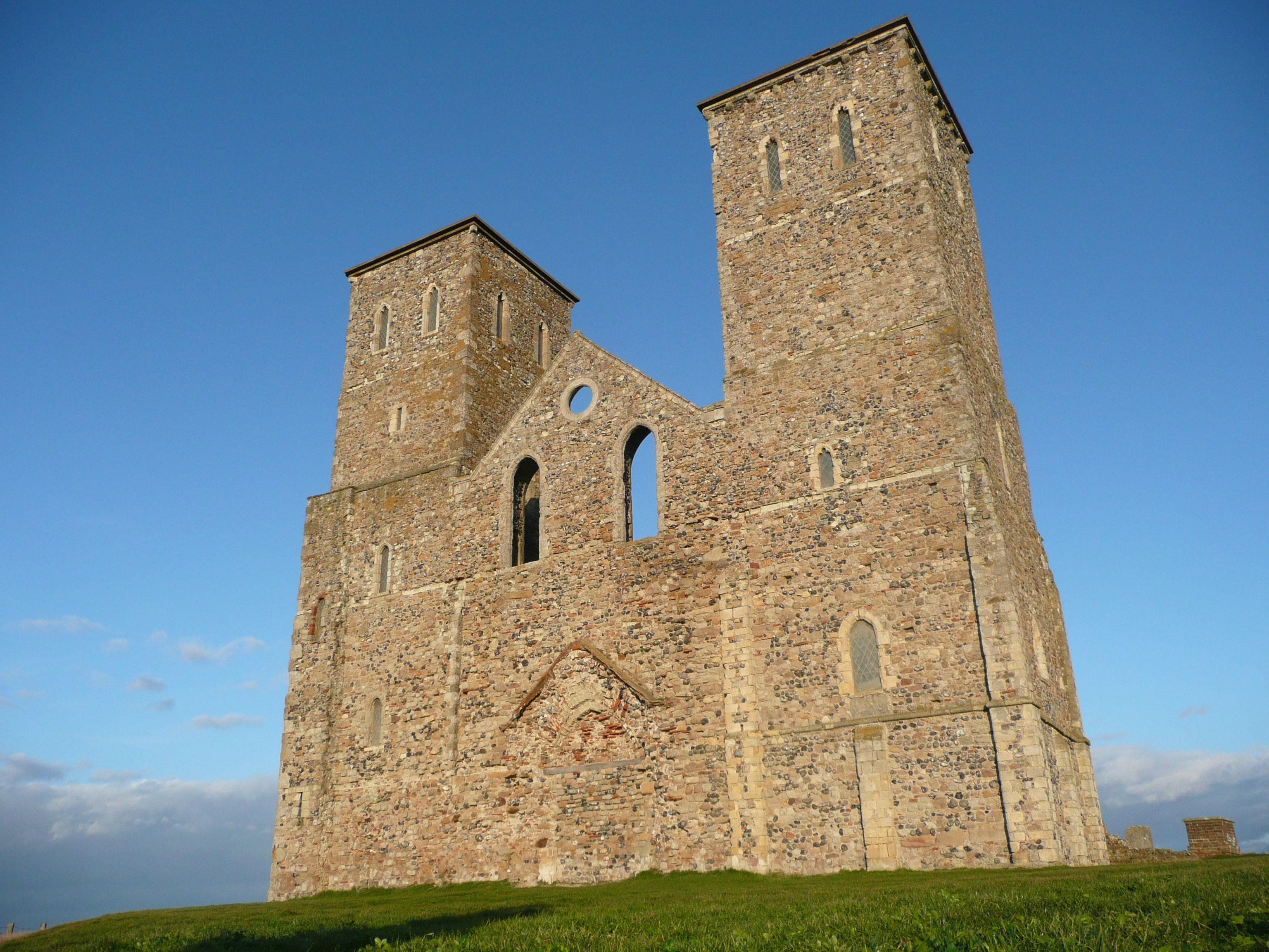 The twin towers of St. Mary's Church, Reculver.